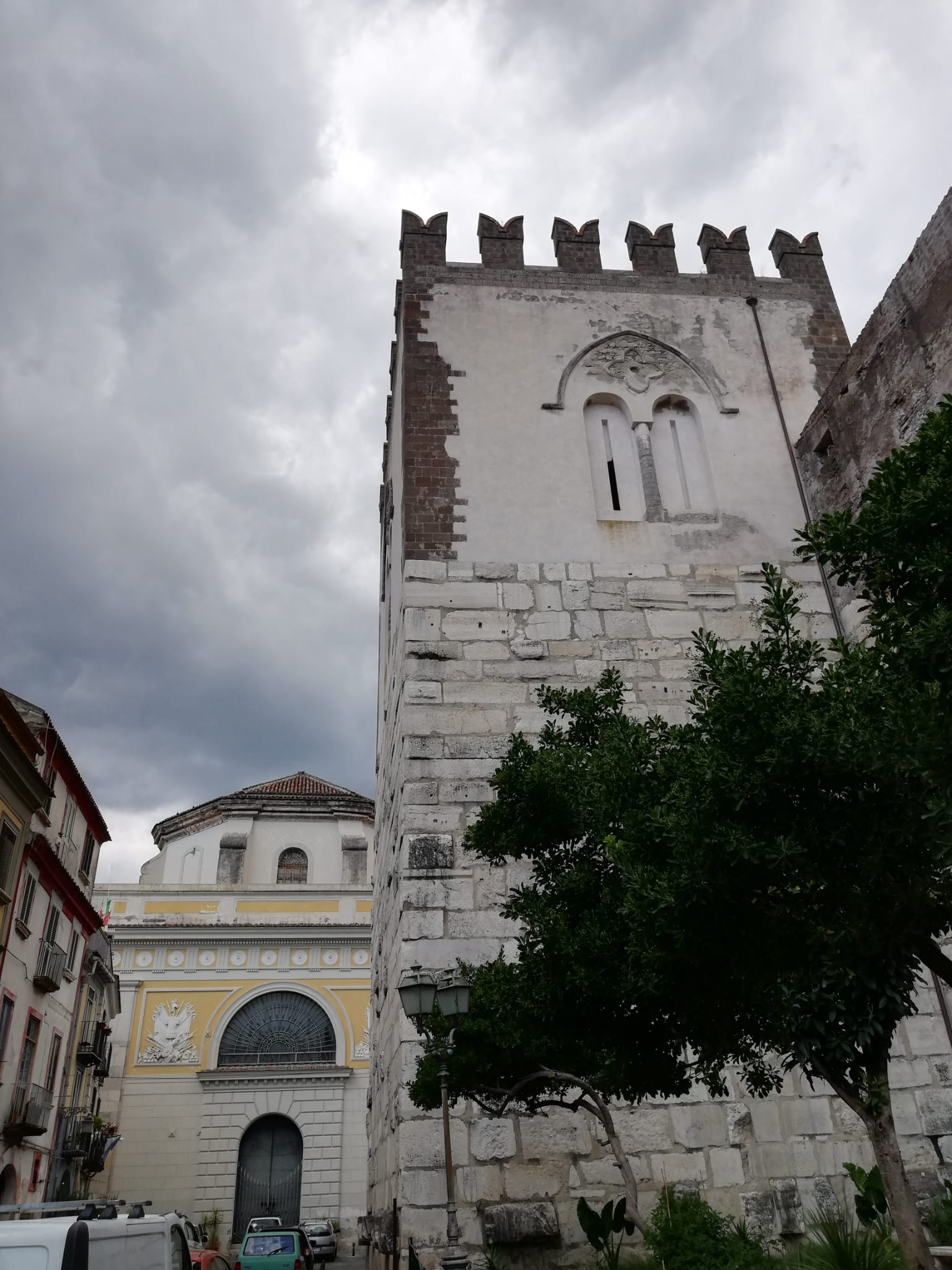 Pic of Castello delle Pietre and of the arsenal in Capua, Italy